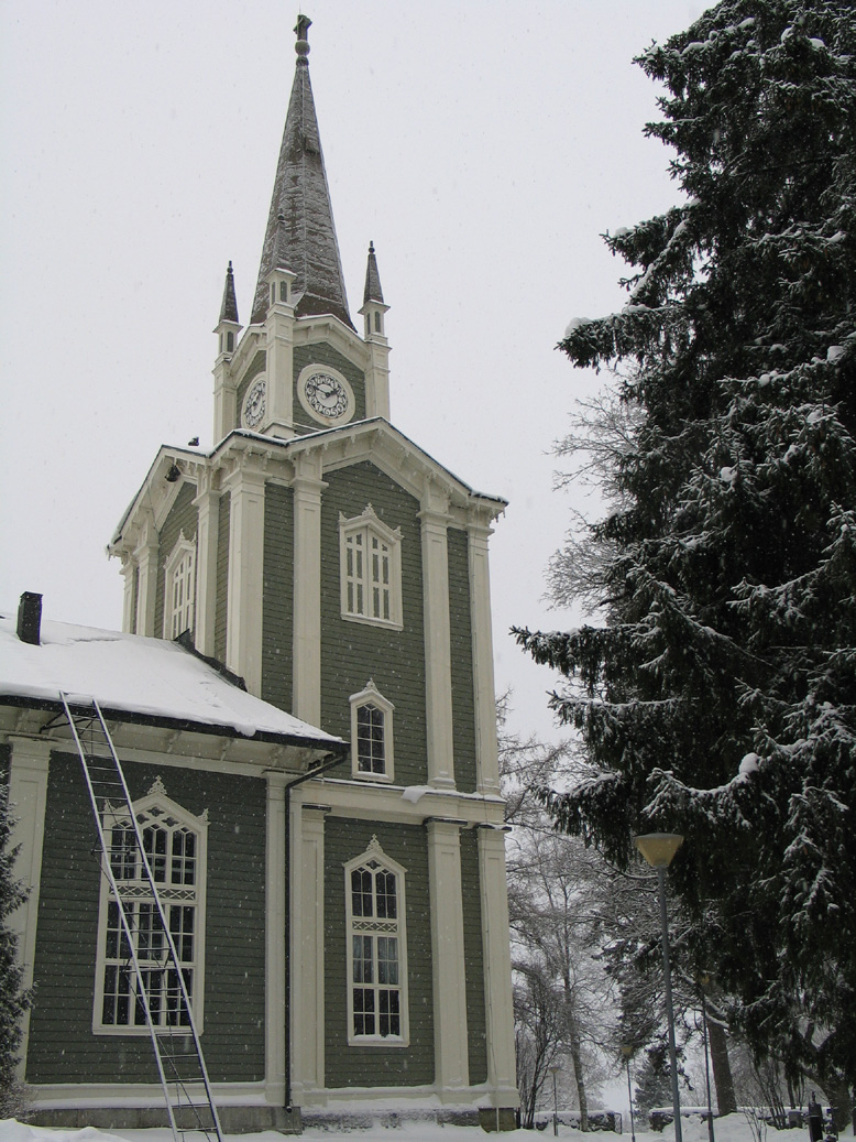 Urjala Church in Urjala, Finland. Completed in 1806. Designed by Martti Tolppo.